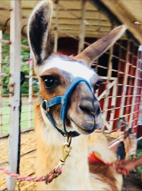 I captured this photo of a llama that has a halter attached to a leash/lead that is tethered to one of the metal poles/bars/rods of the livestock trailer with my iPad mini 2 camera at a petting zoo.